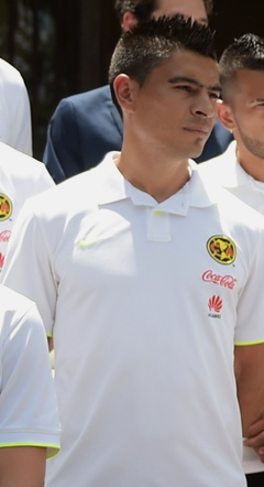 Paolo Goltz